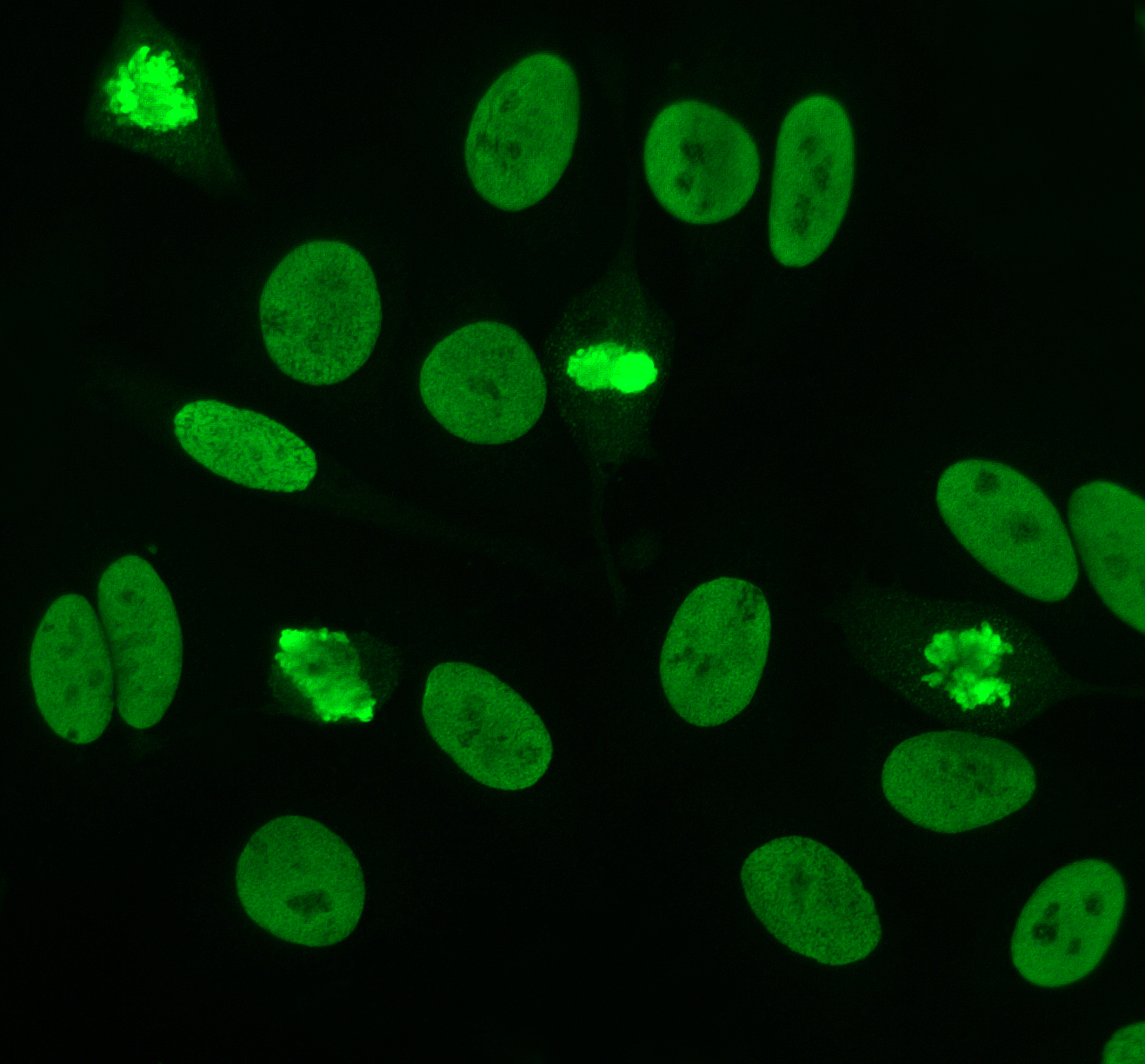 Immunofluorescence pattern of double stranded DNA antibodies. Produced using serum from a patient with lupus erythematosus on HEp-20-10 cells with a FITC conjugate.